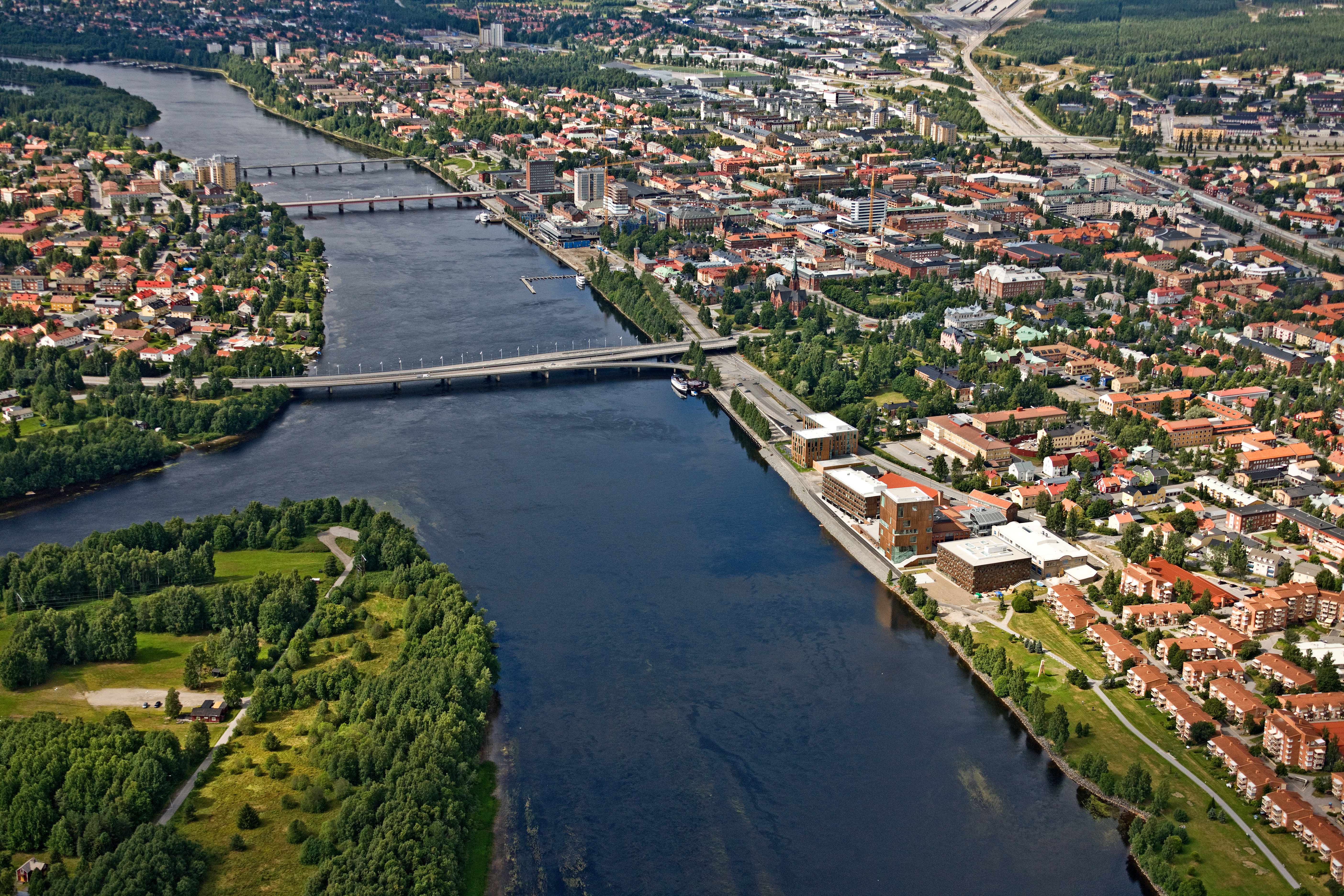 Aerial view of Umeå Arts Campus